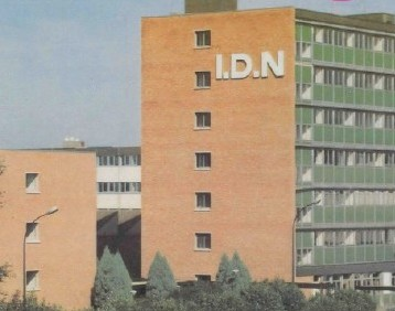 École centrale de Lille - Institut industriel du Nord (IDN) - Graduate engineering school IDN, Cité scientifique, avenue Paul Langevin, BP 48, F-59651 Villeneuve-d'Ascq Cedex, France